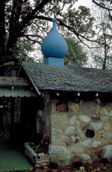 The Cathedral of the Prince of Peace, the Patriarchal Cathedral of Christ Catholic Church Archdiocese of the Prince of Peace.